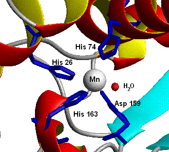 active site of Mn human mitochondrial superoxide dismutase / Site actif Mn-SOD mitochondriale humaine